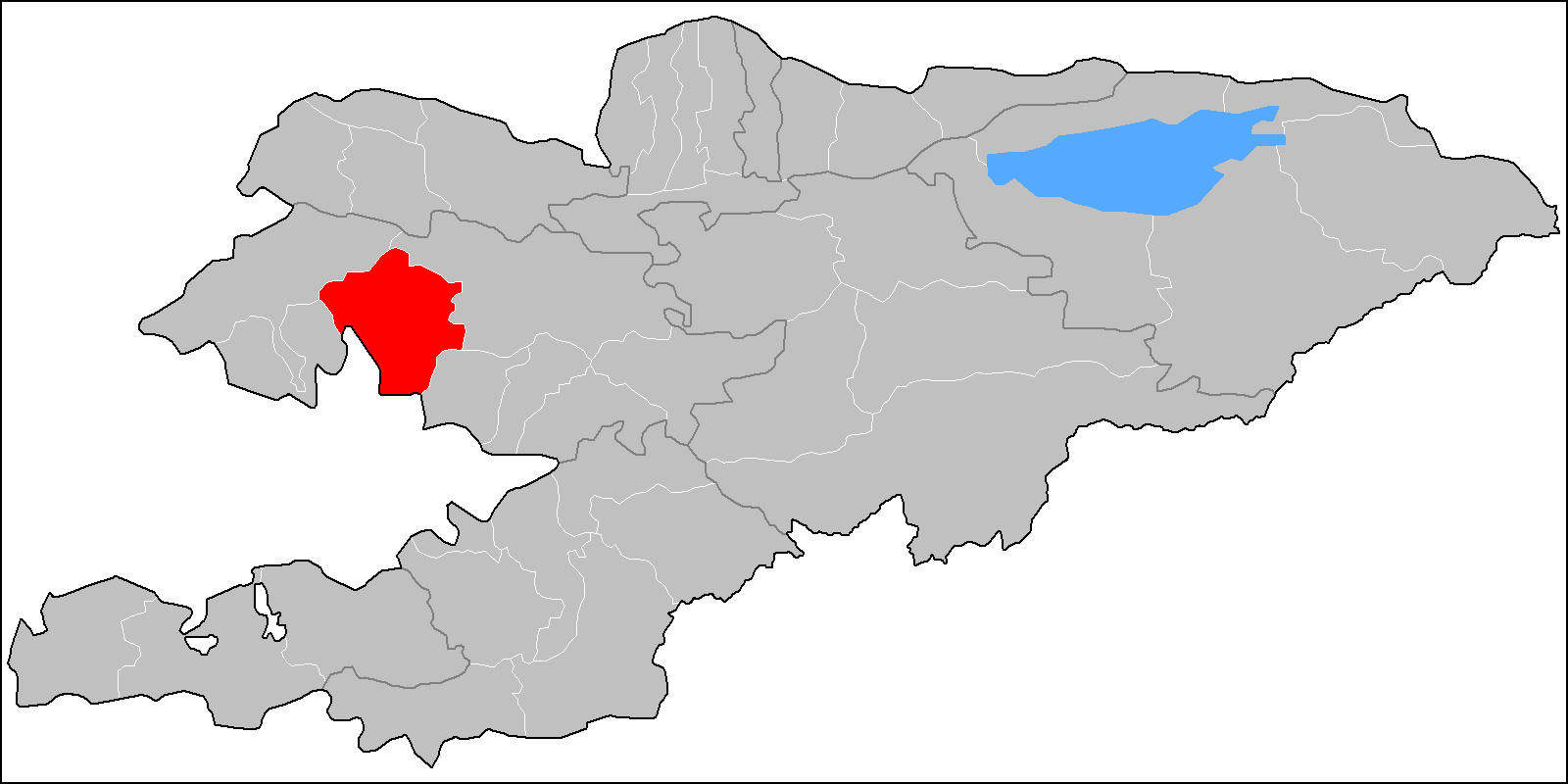 The location of the raion (district) of Aksy in Kyrgyzstan. Based on Image:Kyrgyzstan raions.png